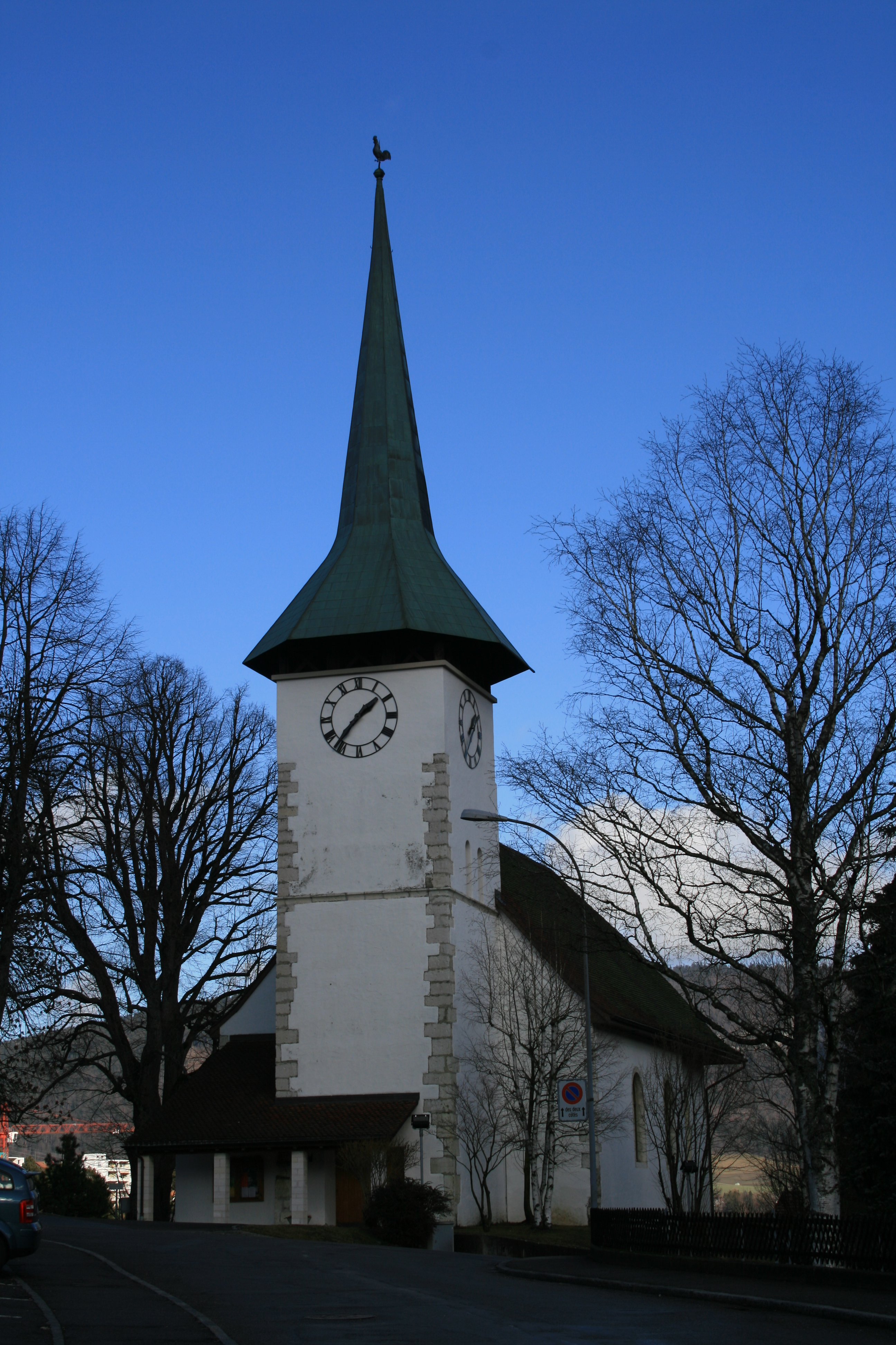 Reformed church of Tavannes (Switzerland)